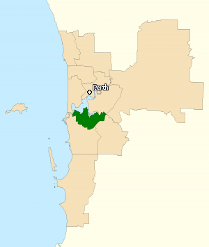 Incorporates or developed using Administrative Boundaries ©PSMA Australia Limited licensed by the Commonwealth of Australia under Creative Commons Attribution 4.0 International licence (CC BY 4.0). Derived from State and Territory Boundaries from the Australian Bureau of Statistics under Creative Commons Attribution 2.5 Australia license (CC BY 2.5 AU)